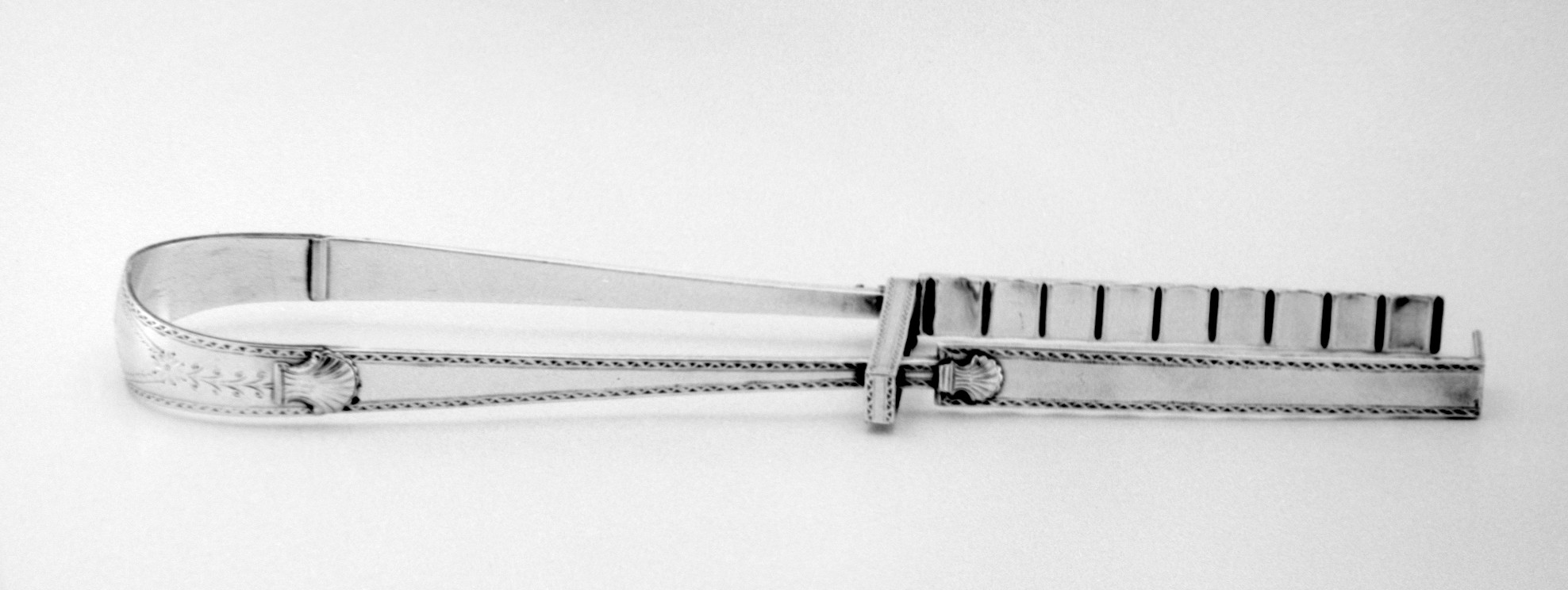 British, Sheffield; Asparagus tongs; Metalwork-Silverplate